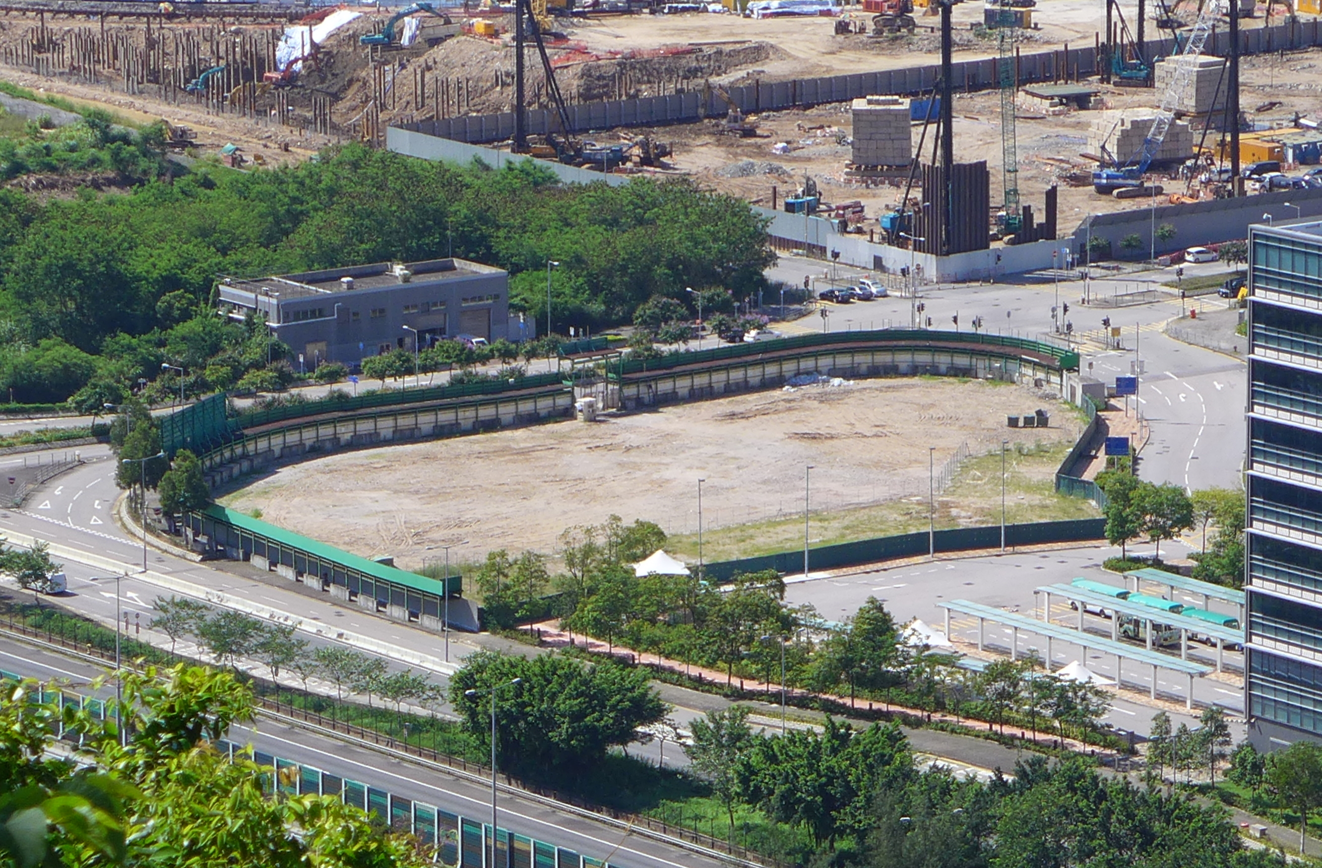 Hong Kong Science Park Phase 4 site